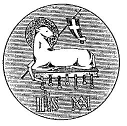 Seal and emblem of the Missionaries of the Most Precious Blood, congregation founded by Gaspare del Bufalo, 1815